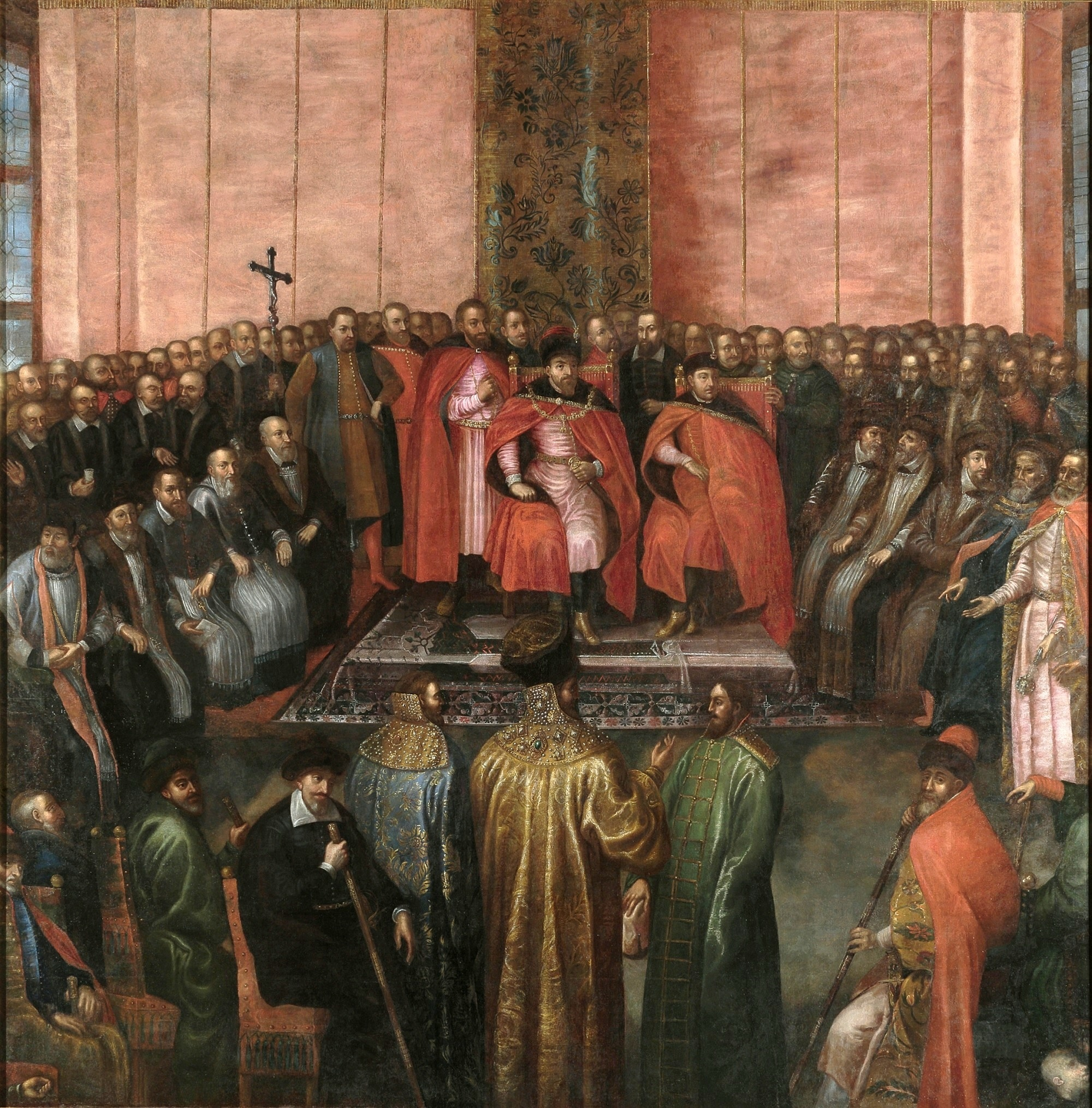 Stanisław Żółkiewski presenting to the King Sigismund III at the Diet in Warsaw in 1611 captured Shuysky brothers.